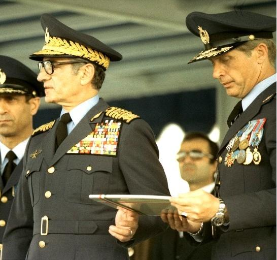 General Nader Jahanbani beside Mohammad Reza Pahlavi and General Mohammad Khatami